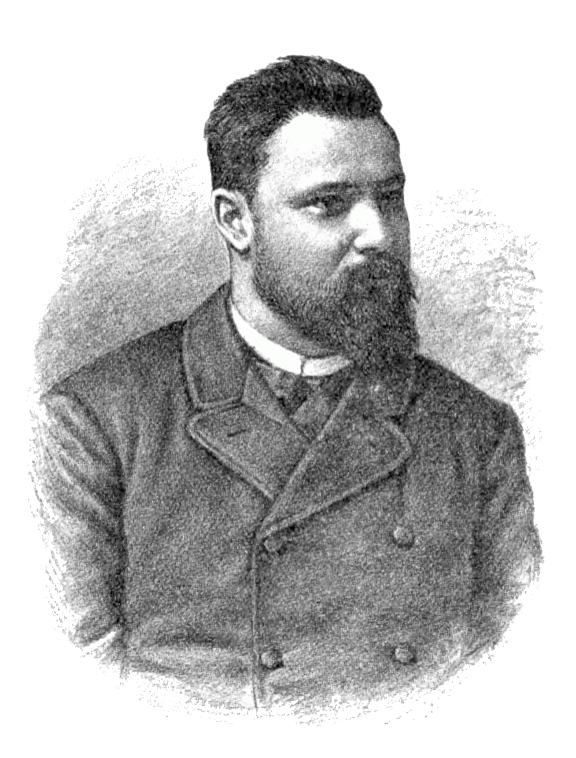 Jovan Hranilović (1855–1924), Croatian priest and writer